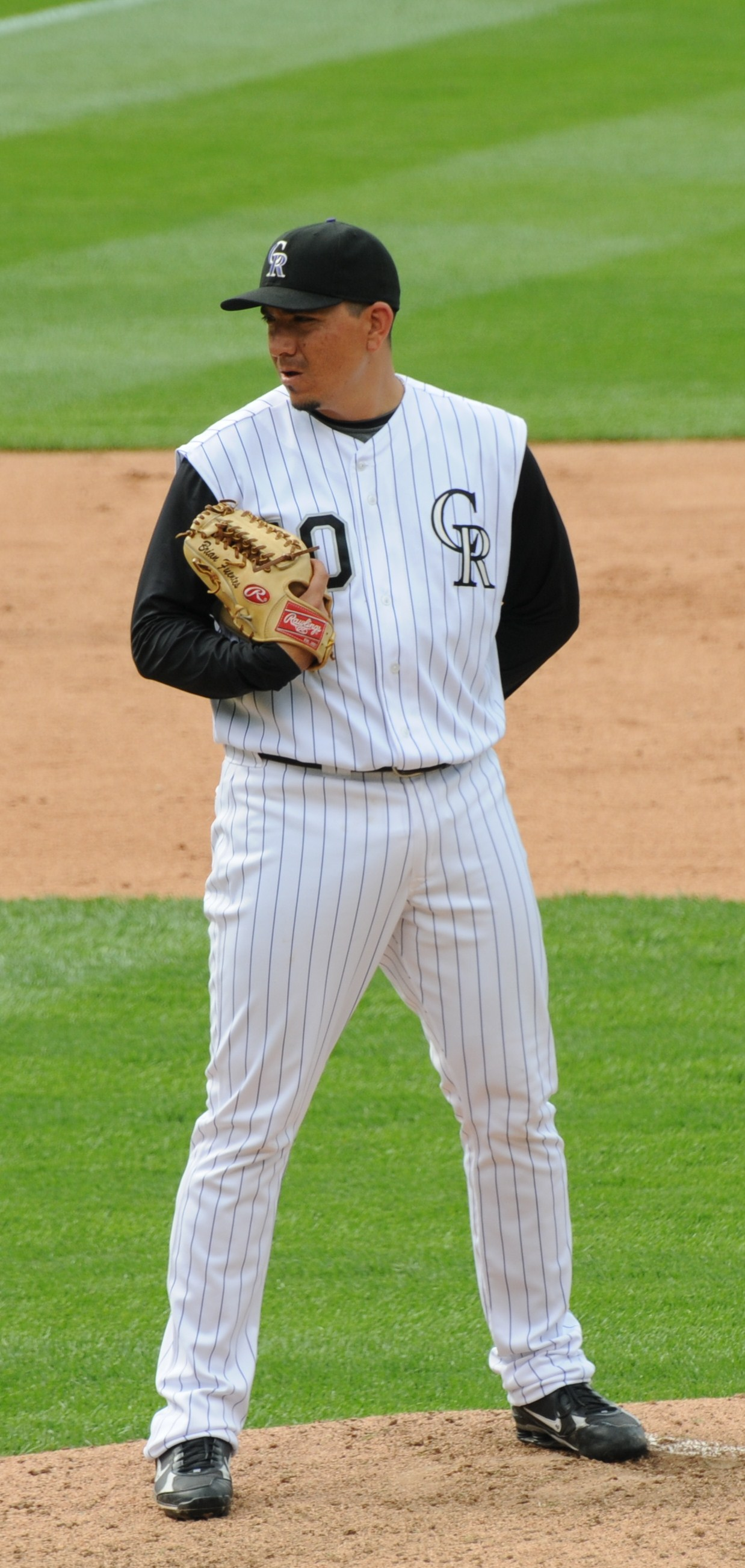 Description own work DateSourceI created this work entirely by myself.AuthorOnetwo1 (talk) 01:28, 11 August 2008 . . Onetwo1 . . 1,238×2,606 (517 KB) own work